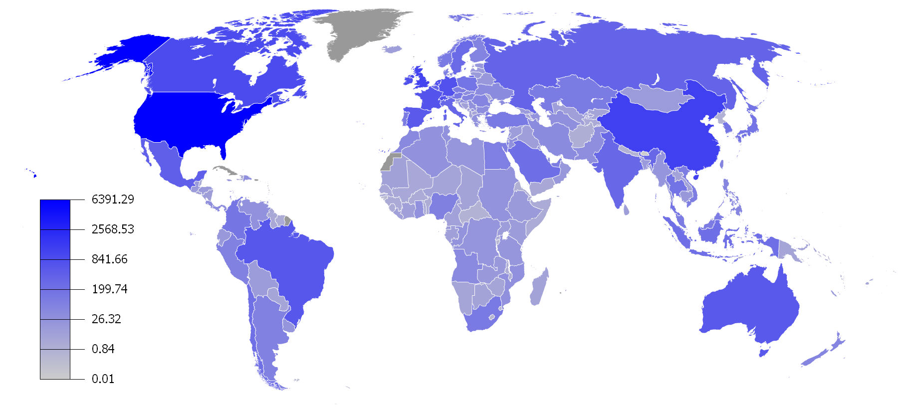 Inward FDI stock at the end 2016 (in US dollars billions)